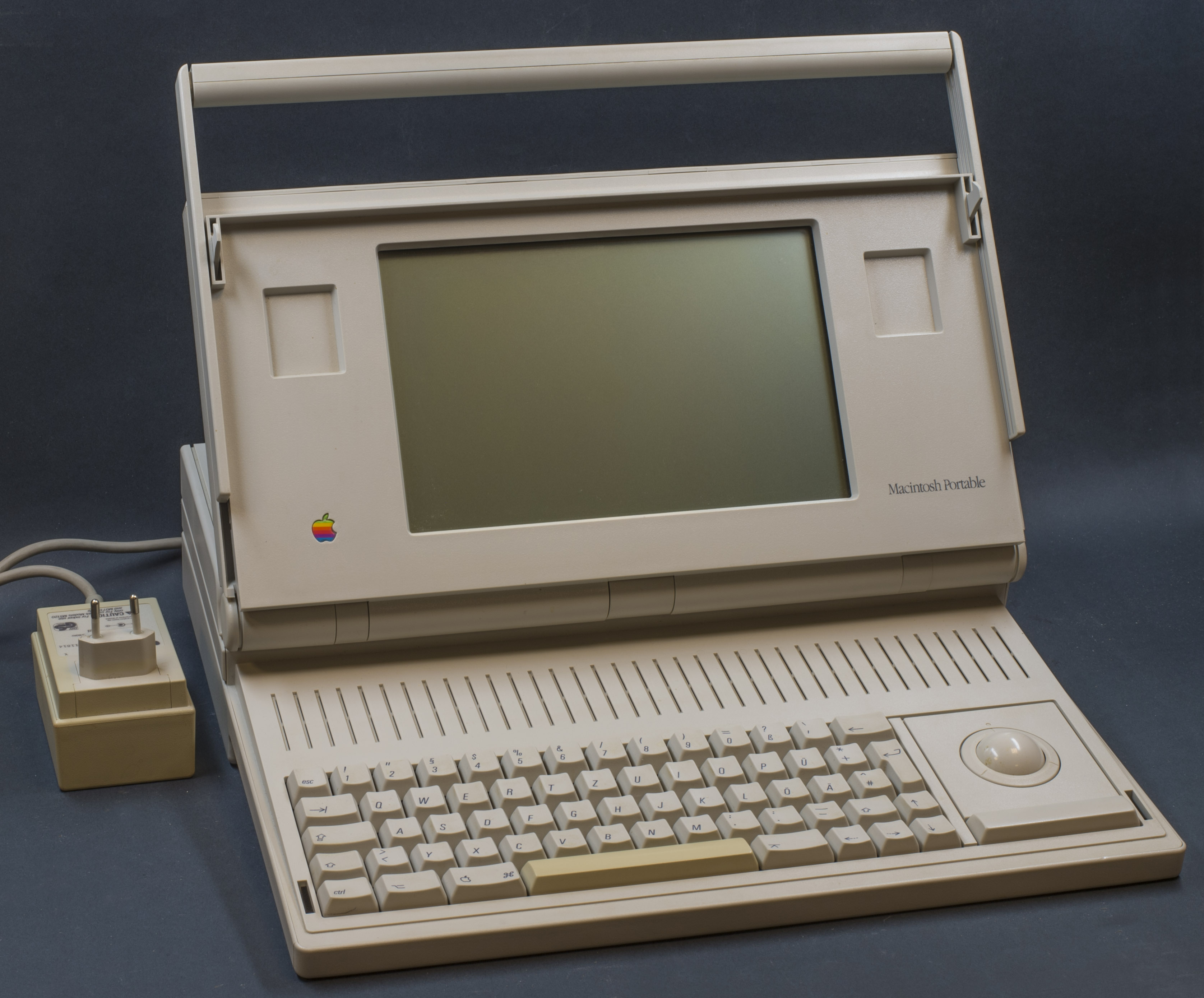 Apple Macintosh Portable (1989) first portable computer of Apple Inc.